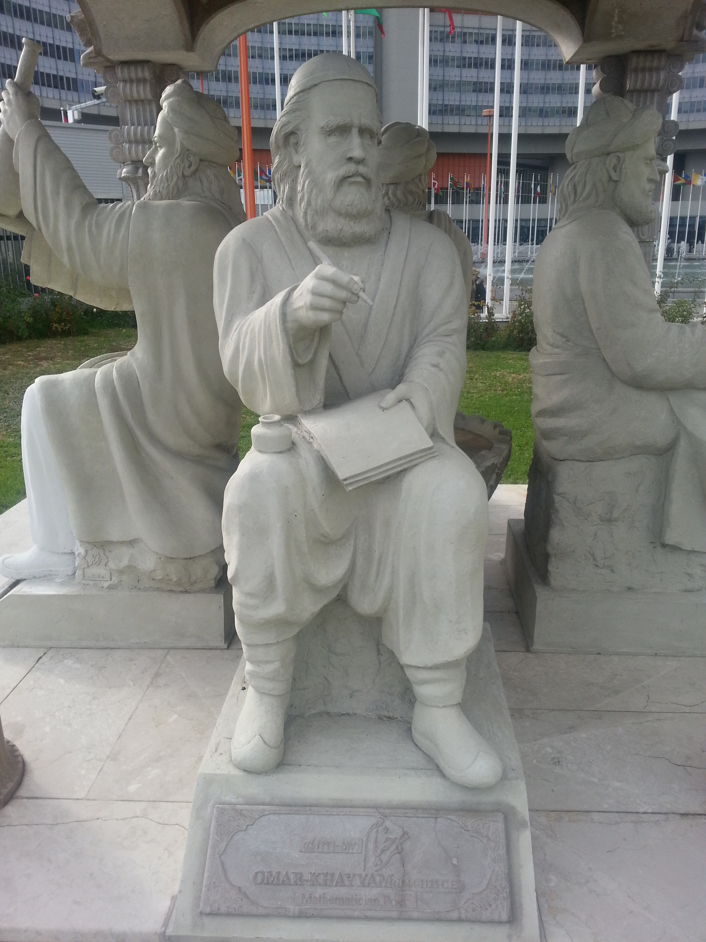 Persian Scholar Pavilion in Vienna International Centre donated by Iran. Jun 2009